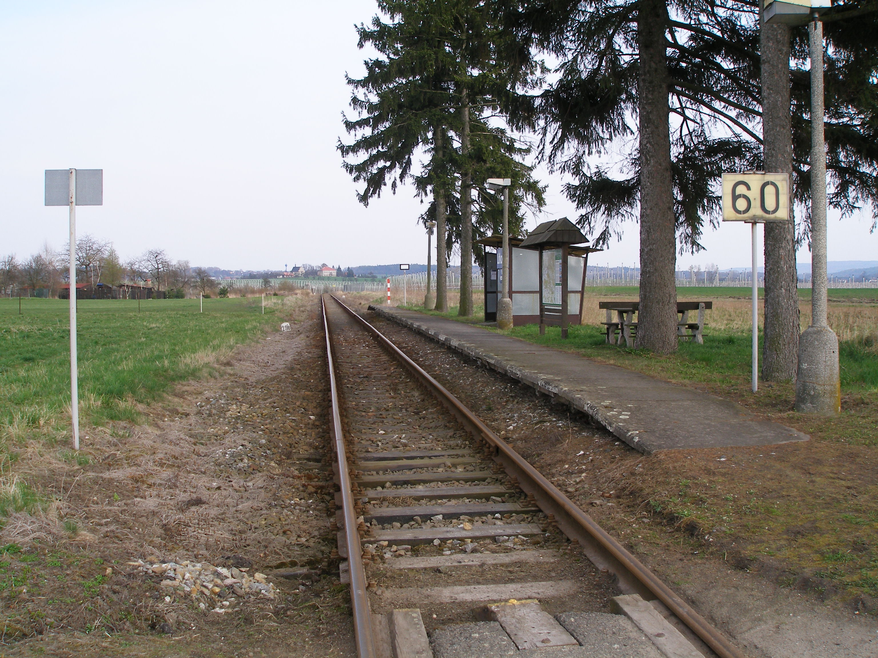 Train station Lítkovice.